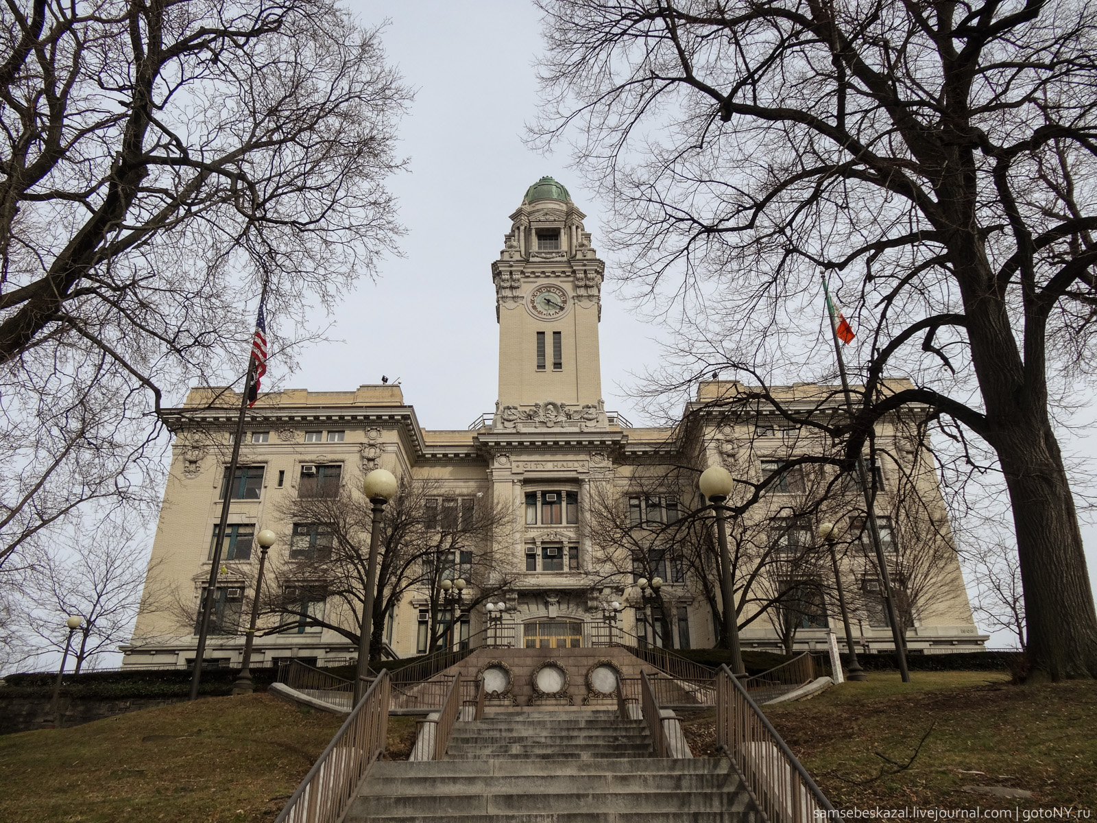 Image by Dennis Fraevich, requiring further identification/categorization.